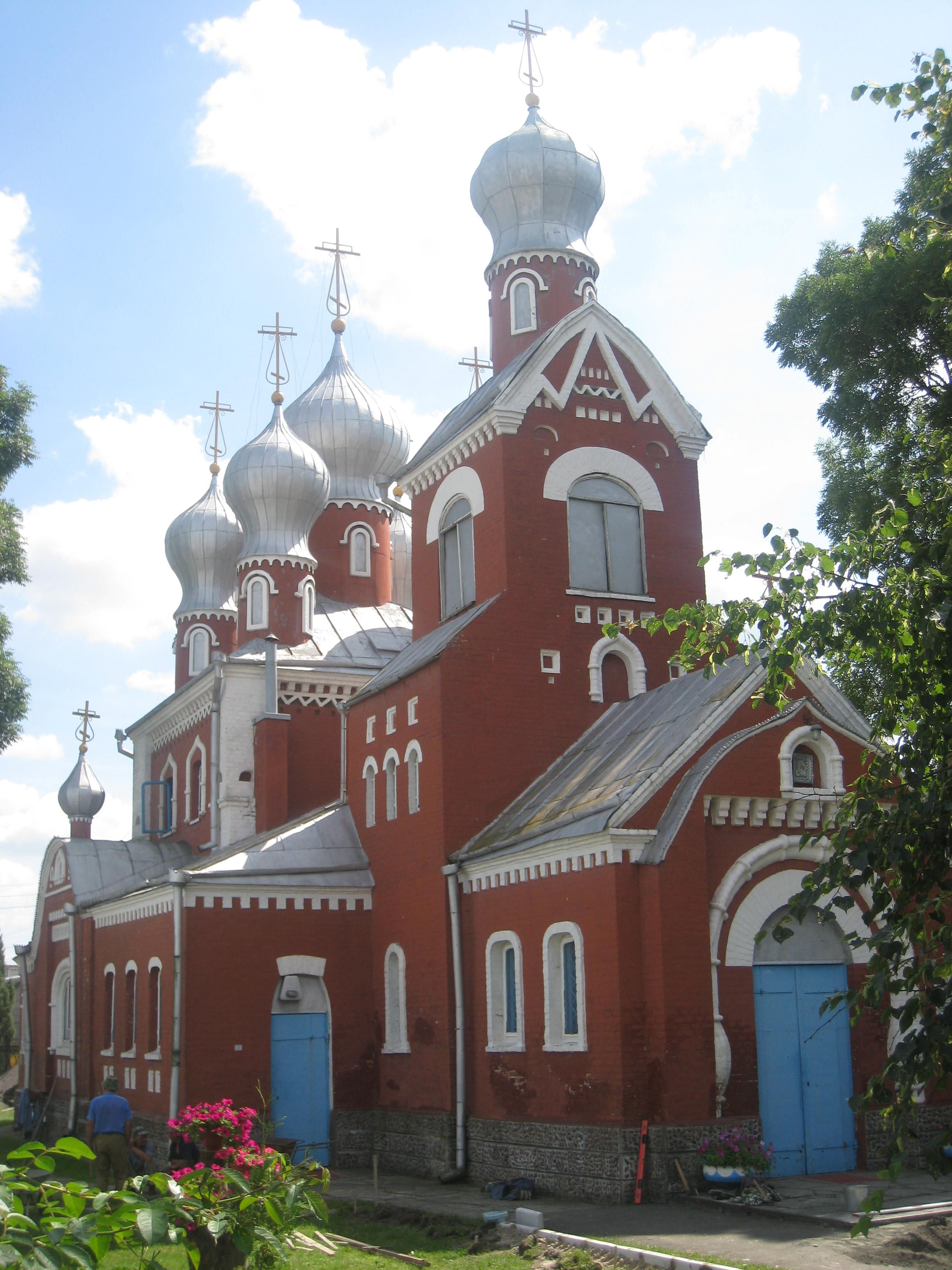 Davyd-Haradok - Orthodox church of the Holy Mother of Kazan.